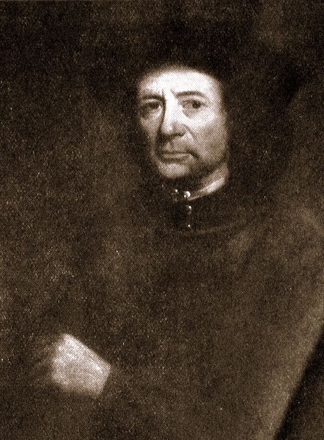 Thomas Britton - English concert promoter